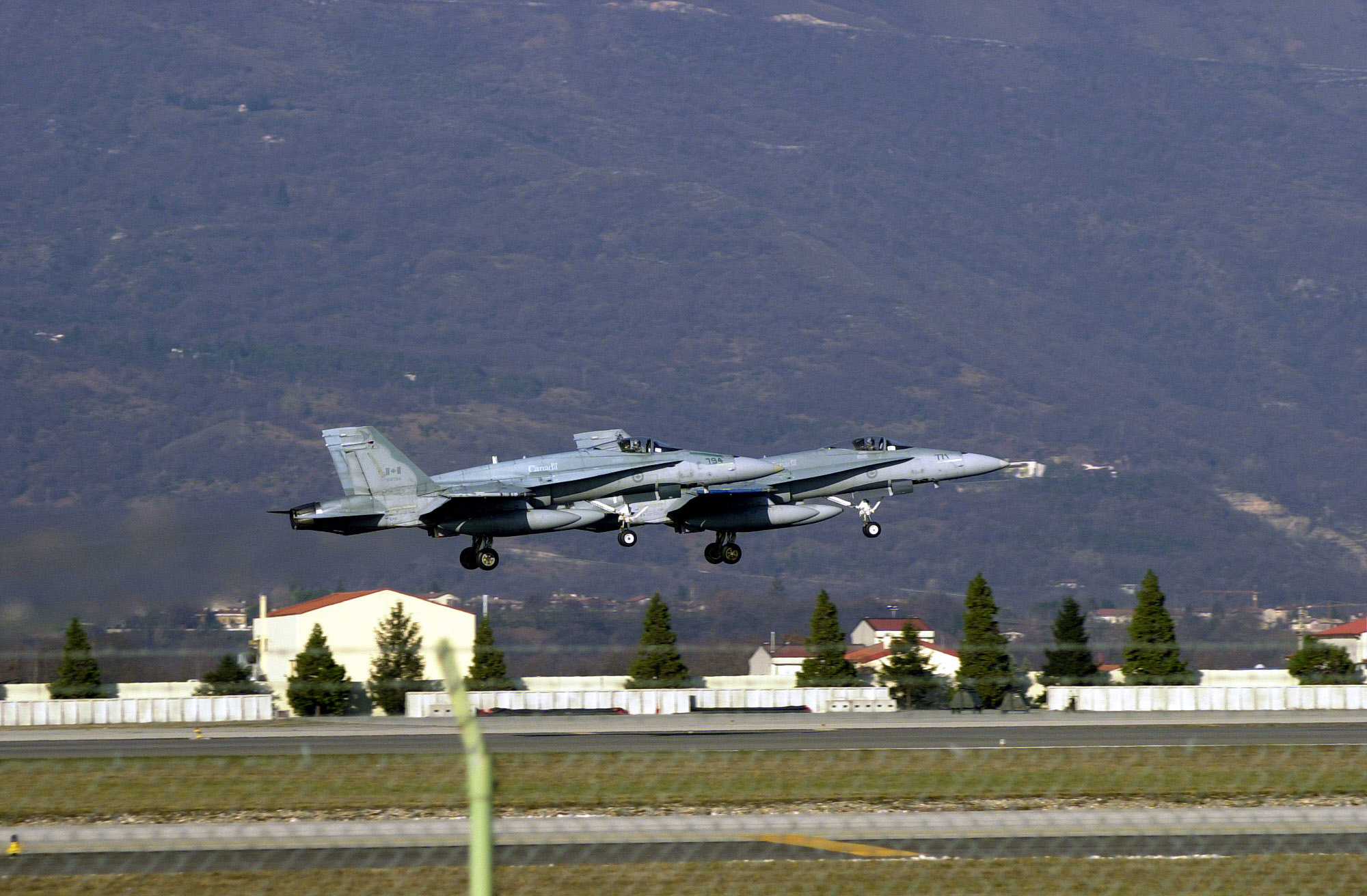 Canadian CF-18 Hornet aircraft depart Aviano Air Base, Italy, after contributing 2,600 combat flying hours in support of NATO Operation ALLIED FORCE, and engaging in reconnaissance and surveillance in support of Operation ECHO. ALLIED FORCE objective was to degrade and damage the military and security structure of President Milosevic. Operation ECHO were patrols over either Bosnia-Herzegovina or Kosovo. The detachment will return to the 4th Wing, at Cold Lake, Alberta, Canada. The Canadiens arrived at Aviano in June of 1998.Location: AVIANO AIR BASE, PORDENONE ITALY (ITA)